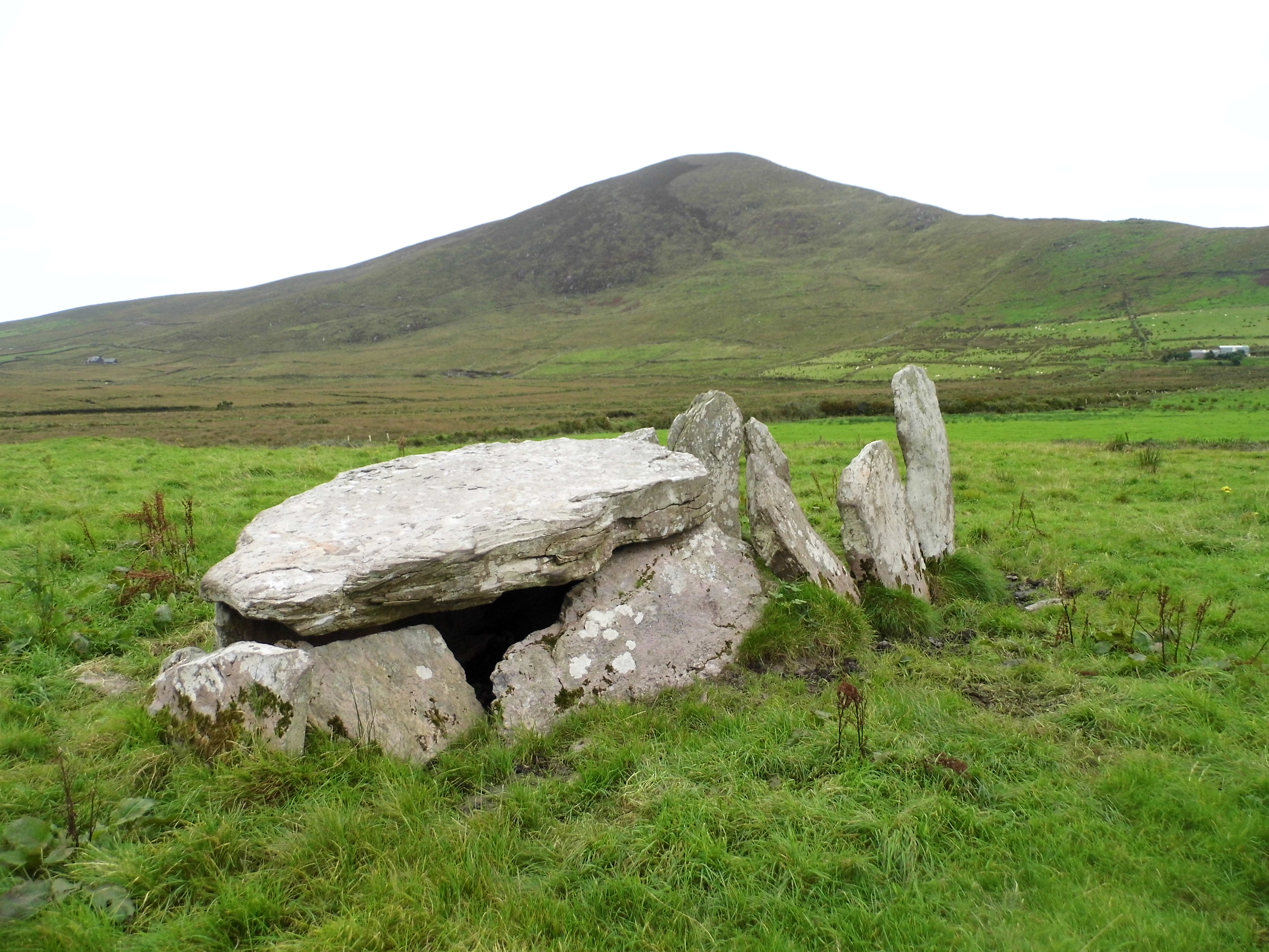 County Kerry, Coom Tomb. Wikidata has entry Q30247272 with data related to this item.